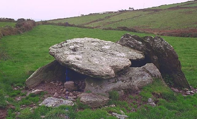 Killough Wedge Tomb. Taken on a day when the sheep were in another pasture.